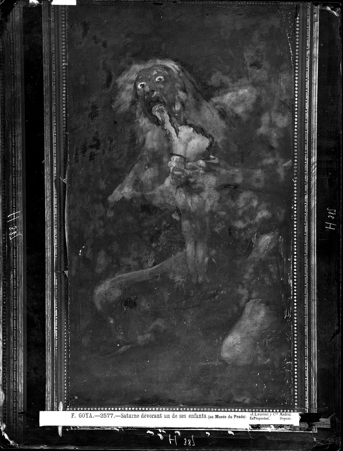 Photo of mural painting "Saturn" from the series of Black Paintings of Goya. The original glass negative was taken by J. Laurent, in 1874, inside of the house of the Quinta de Goya. Years later, around 1890, the successors of Laurent added a label indicating "Prado Museum". But photographic reproduction is 1874. Goya died in Bordeaux in 1828.